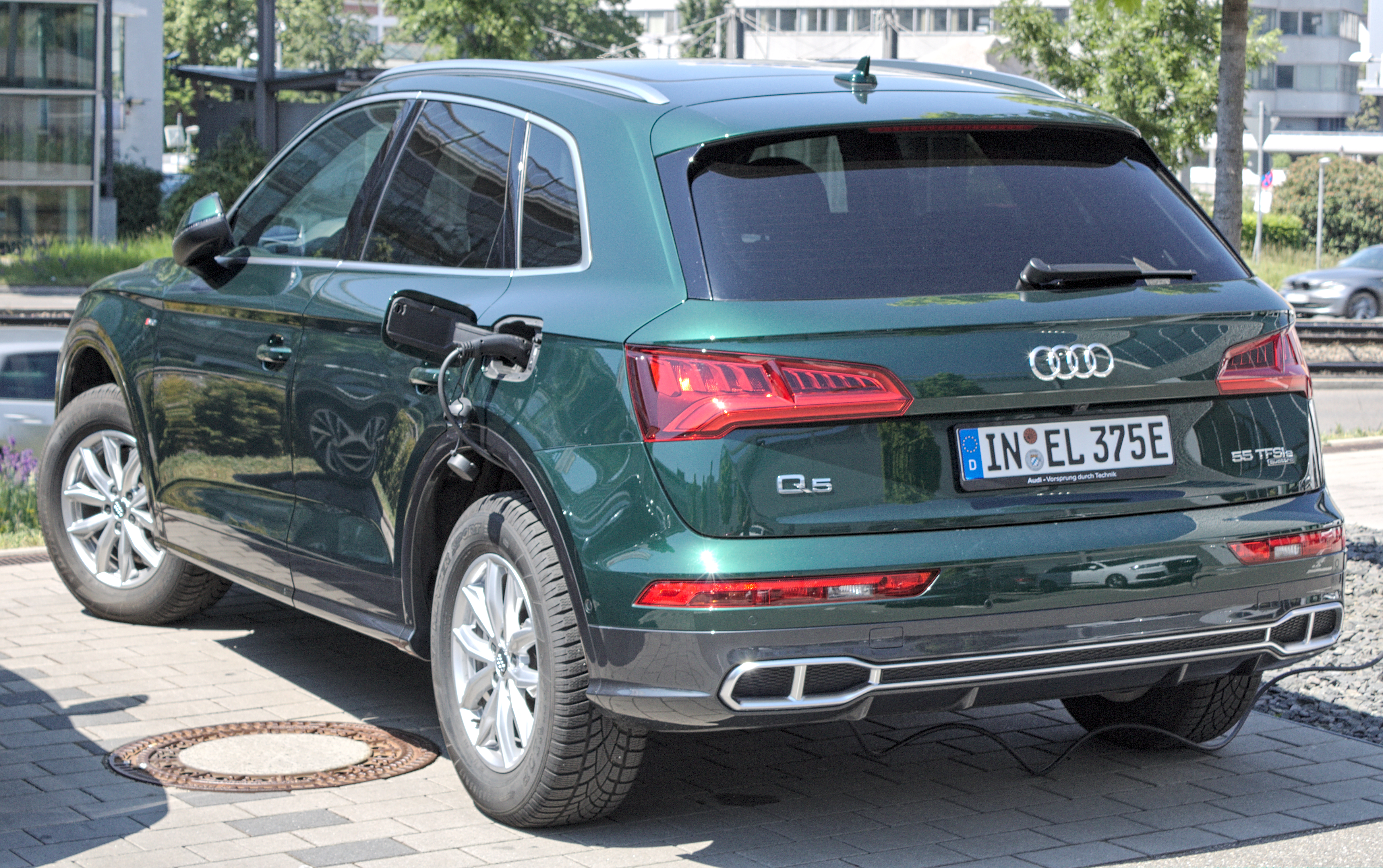 Audi_Q5_TFSI_e in Stuttgart